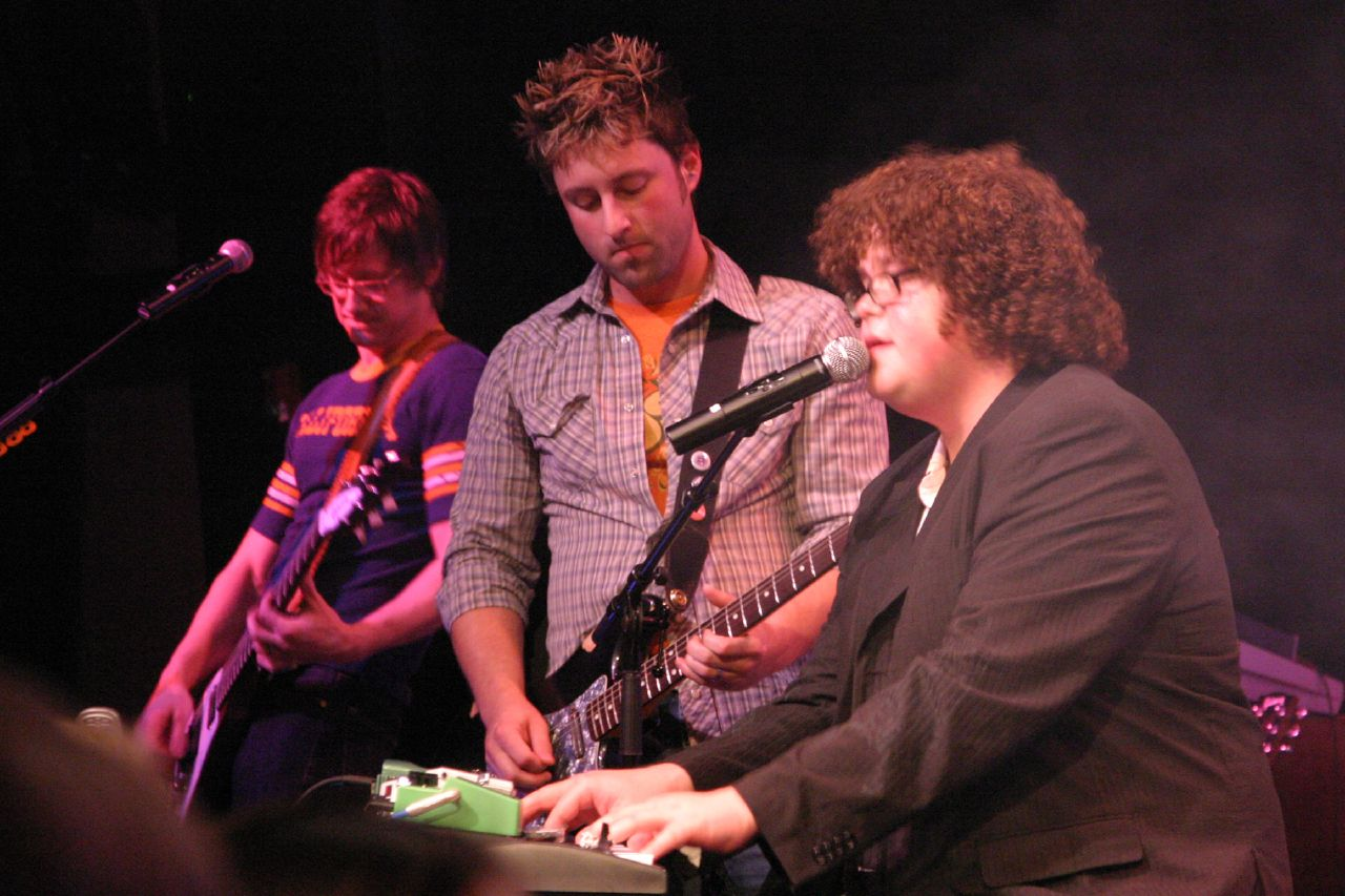 Former American Idol singer Chris Sligh and his band Half Past Forever